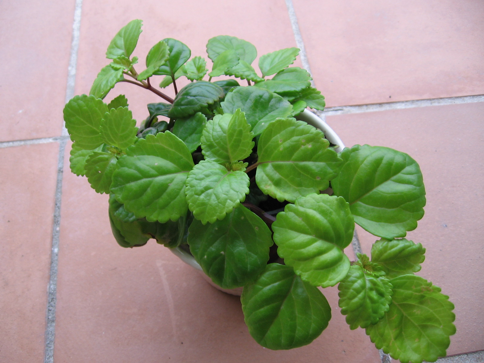 Plectranthus verticillatus